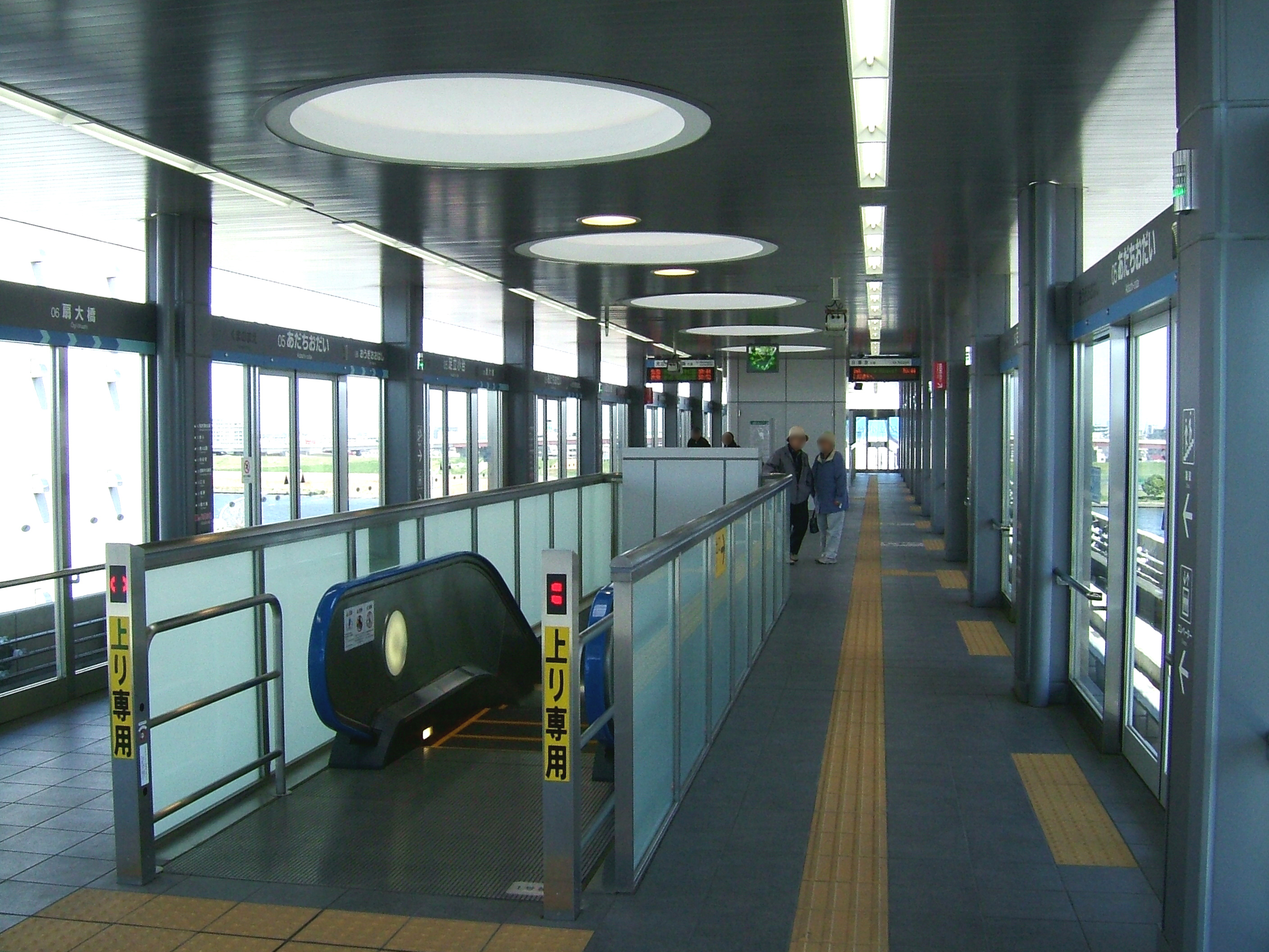 Adachi-odai Station platform (Nippori-Toneri Liner)